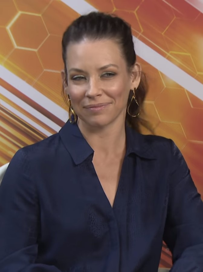 Who’s real name is Nicole? Who won an Orange County beauty pageant? And who’s a vegan? Watch Ant-Man And The Wasp stars Paul Rudd, Evangeline Lilly, Hannah John-Kamen and Peyton Reed take the ultimate SQUAD GOALS test.